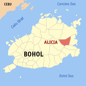 Map of Bohol showing the location of Alicia